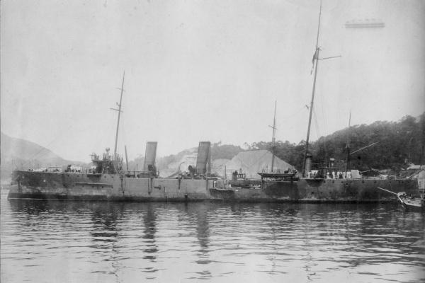 IJN despatch vessel CHIHAYA at Maizuru Naval Base.